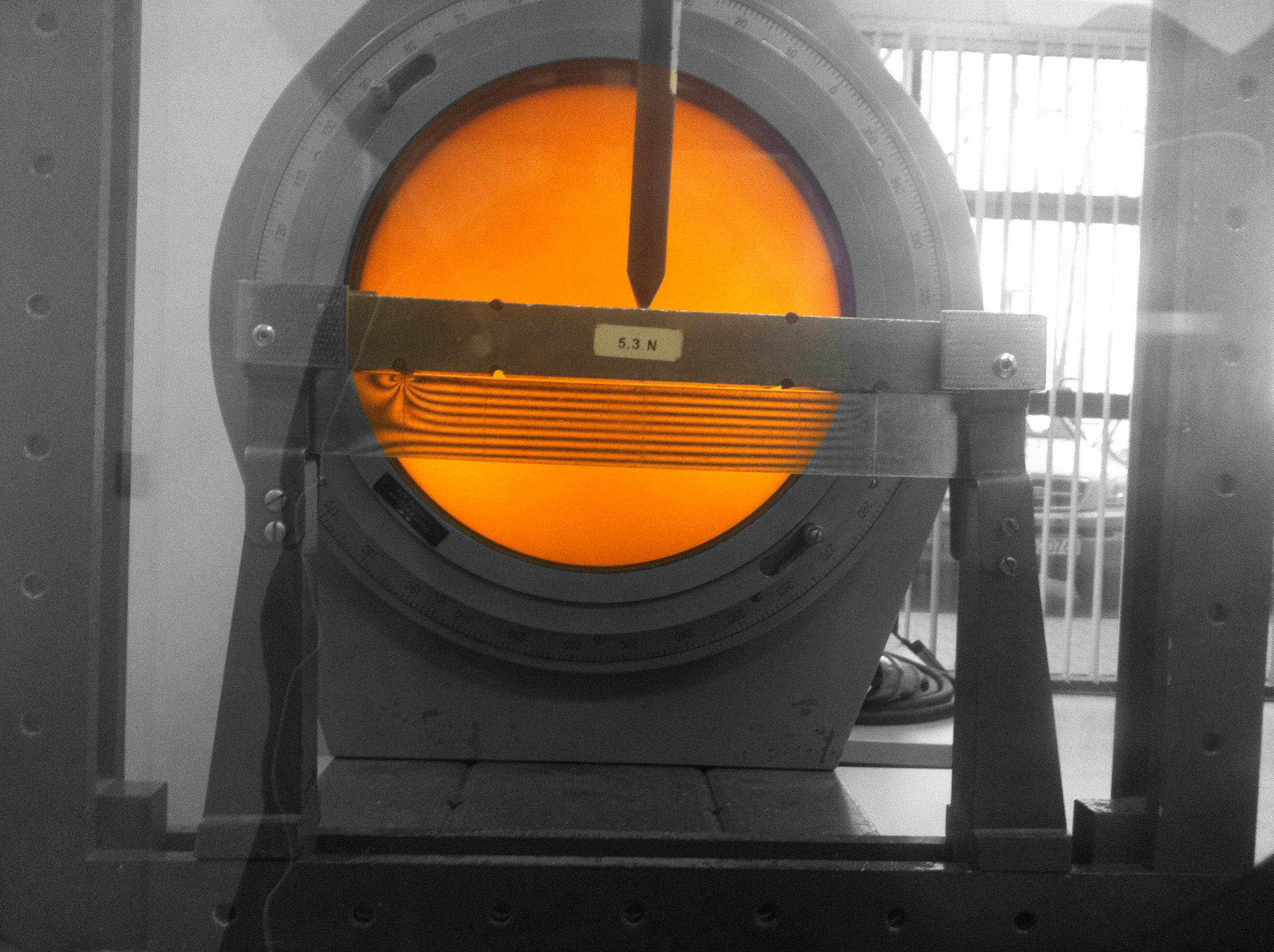 Isochromatics in polariscope.